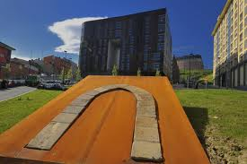 Monument of Bilbao